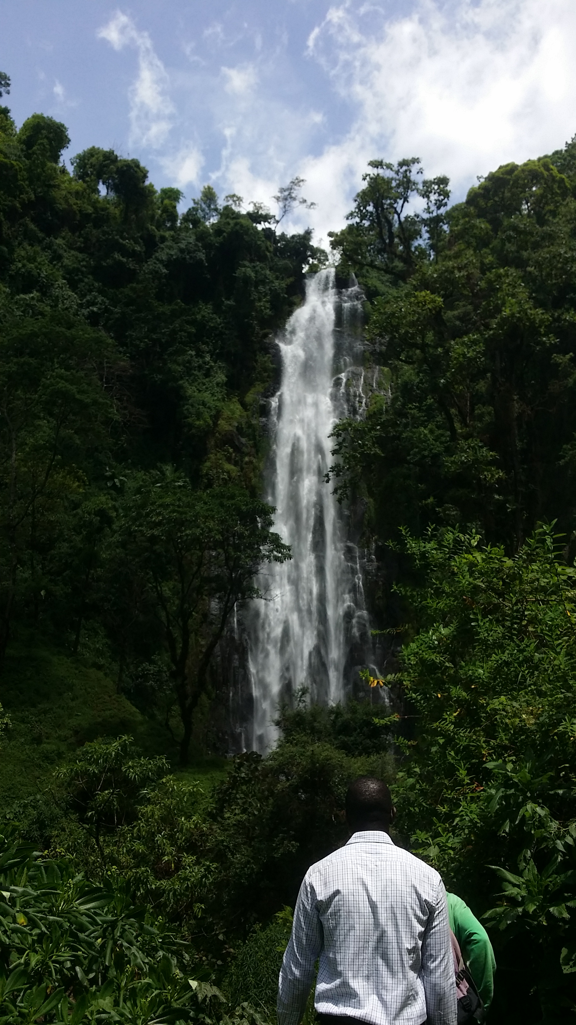 Local tourist enjoying Materuni waterfalls